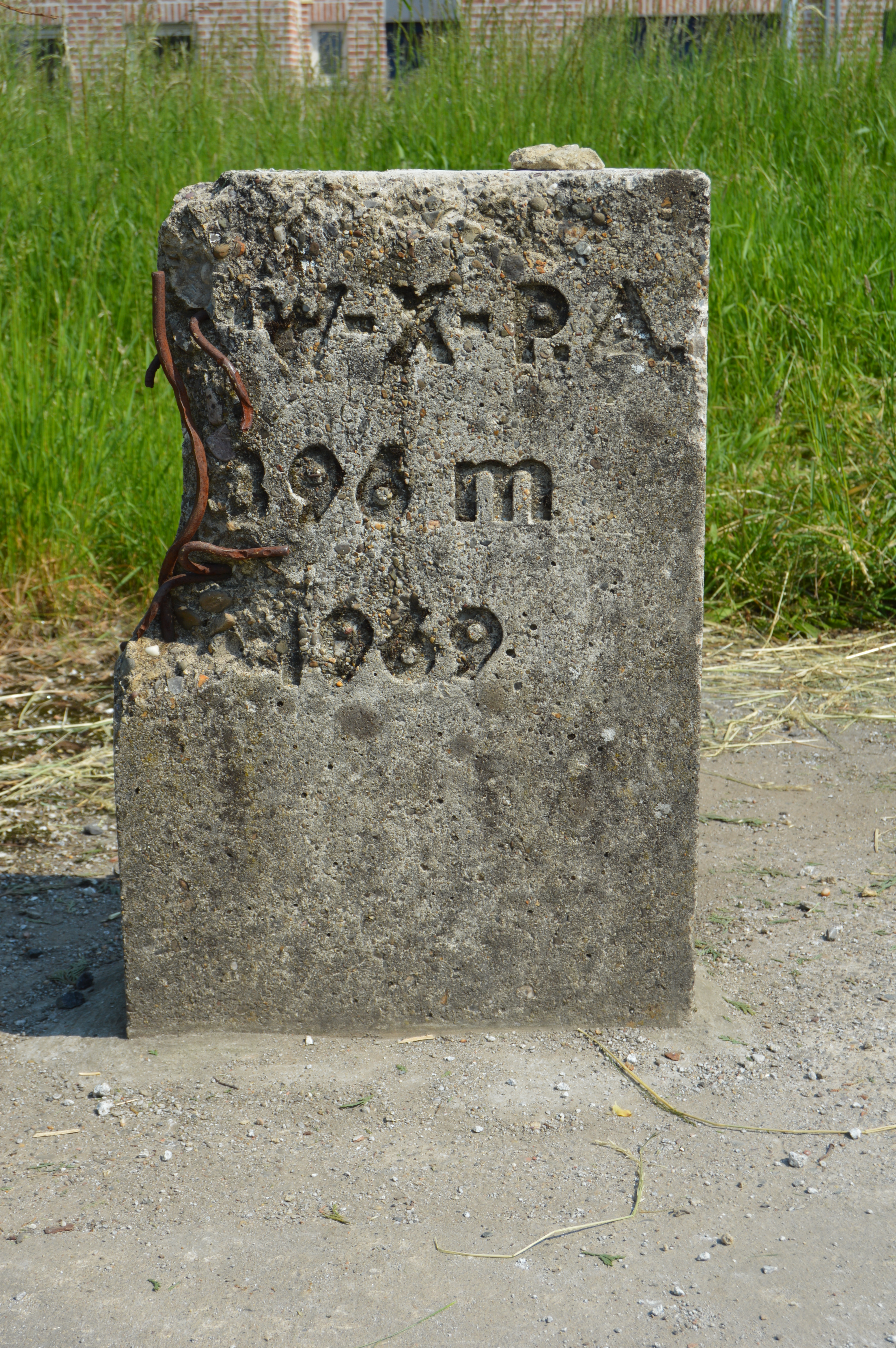 Ancient pit José in Herve, Belgium